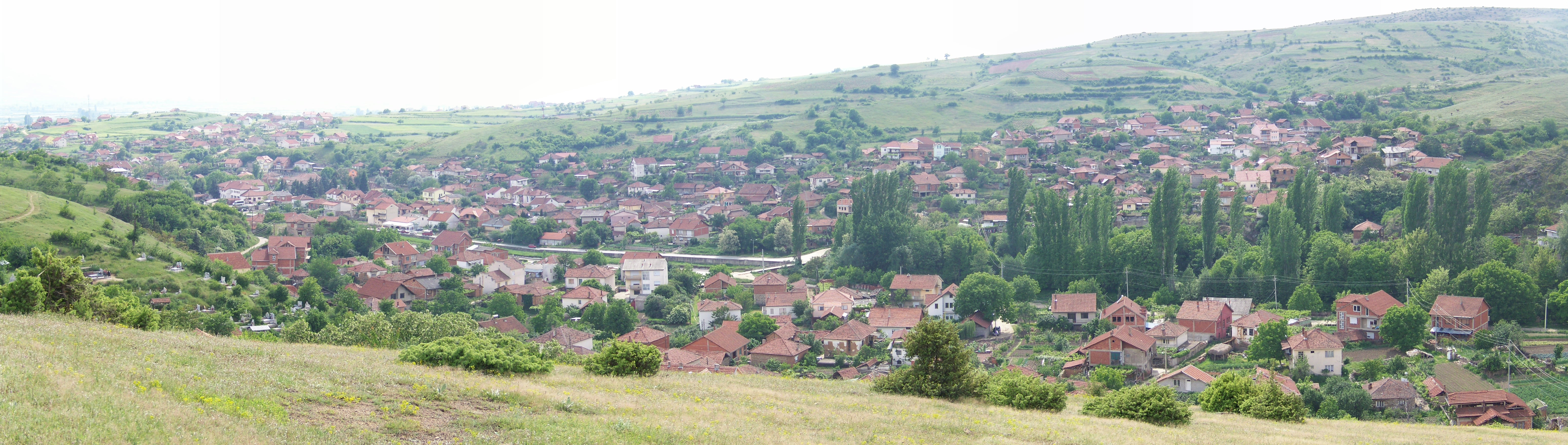 Panoramic photo of village of Orizari, Kocani, Republic of Macedonia